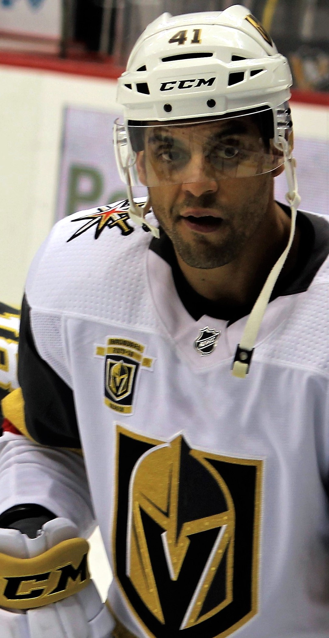 Vegas Golden Knights forward Pierre-Edouard Bellemare during a game against the Pittsburgh Penguins, February 6, 2018, at PPG Paints Arena in Pittsburgh, PA.